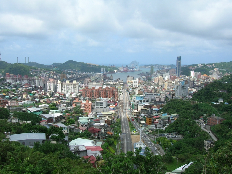 Overview of City Center of Keelung.The photo taken on Shih-Chiu-Ling in Taiwan. Bân-lâm-gú: Uì Tâi-uân Sai-kiû-niá khuànn Ke-lâng tshī-tiong-sim. 對臺灣獅球嶺看基隆市中心。